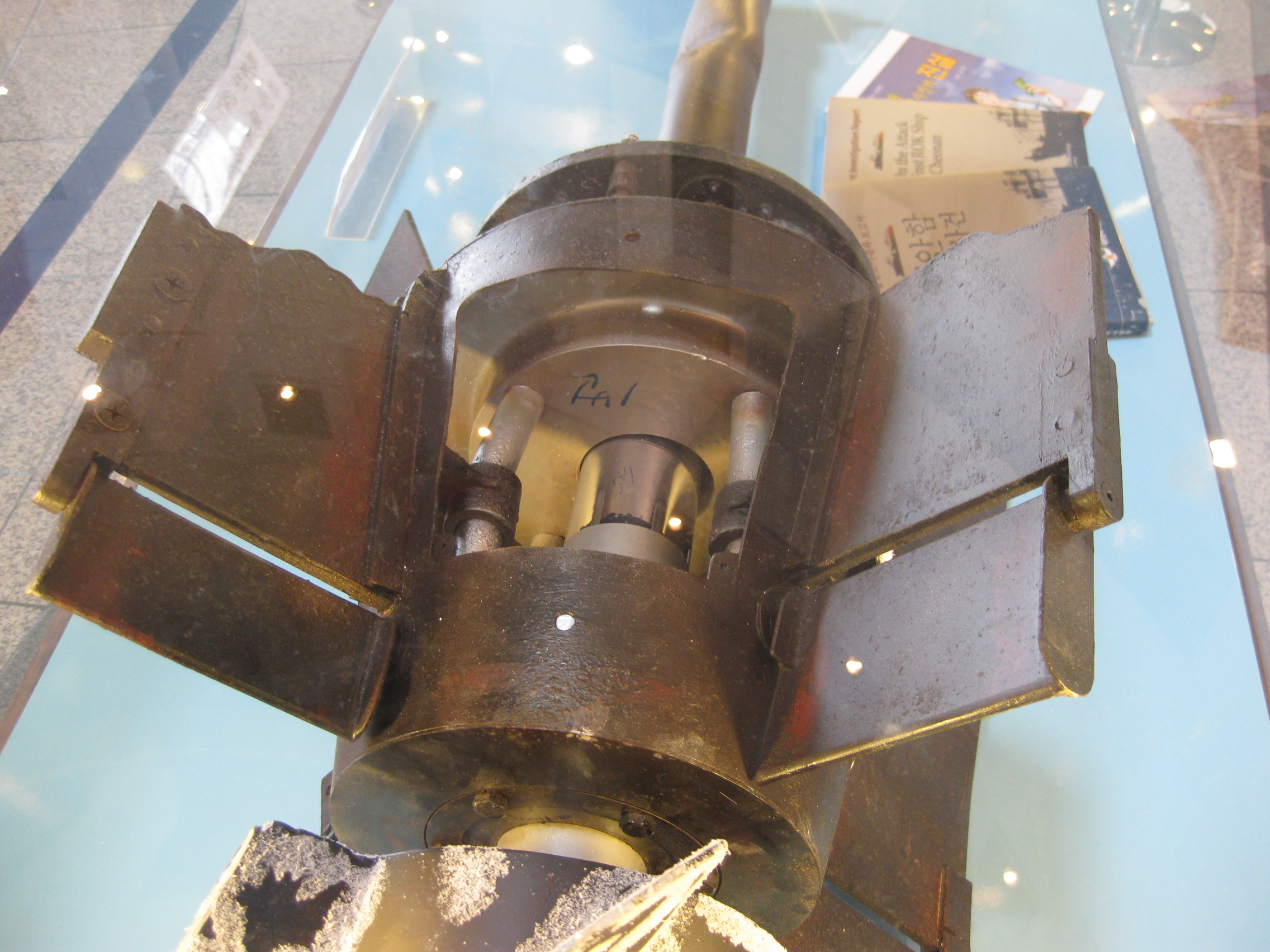 CHT-02D torpedo propulsion section showing 1번 marking, on display at the War Memorial of Korea, 23 March 2011, displayed as part of the 1 year anniversary of the sinking of the ROKS Cheonan